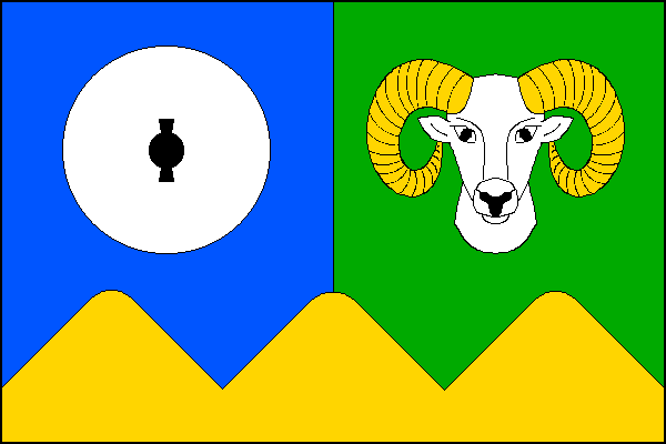 Municipal flag of Zvánovice , District Prague-East, Czech Republic